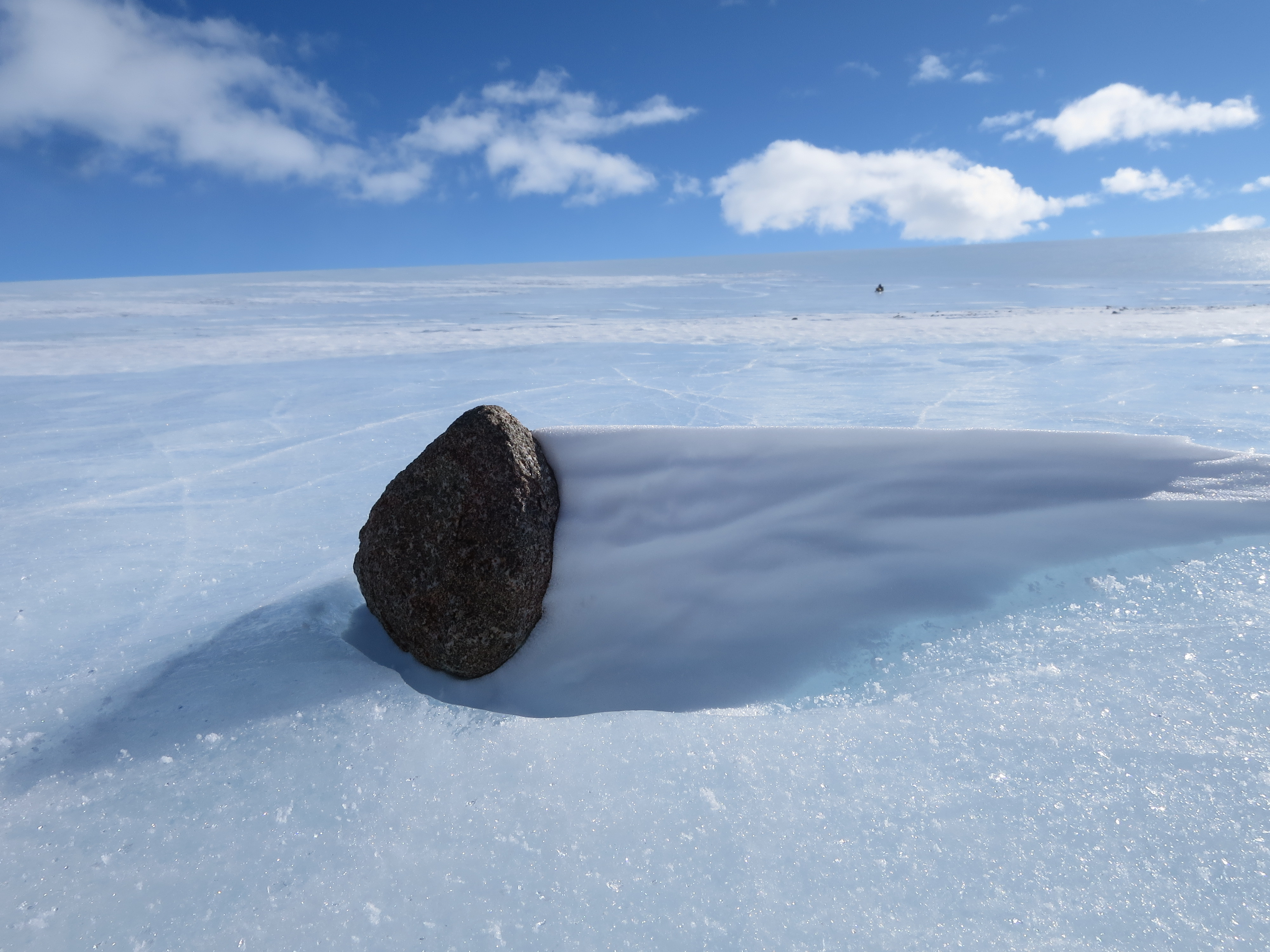 A meteorite on the blue ice field in the Miller Range.